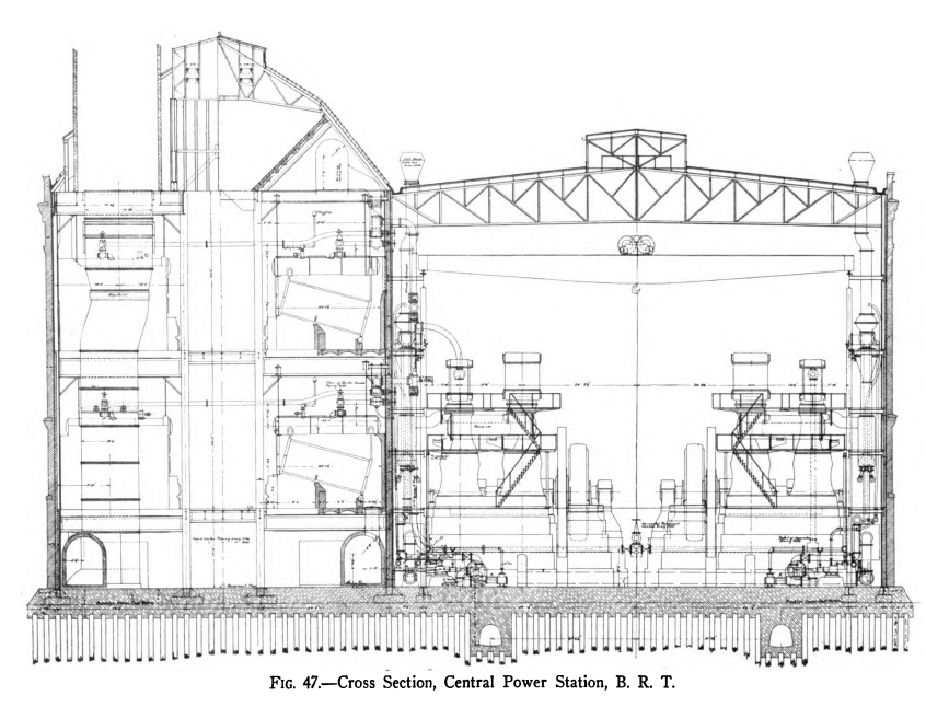 The Central Power Station of the Brooklyn Rapid Transit Company, which closed in the 1950s and became known as the Gowanus Batcave. These photos and diagrams come Electric Power Plants: A Description of a Number of Power Stations by Thomas Edward Murray (1910).